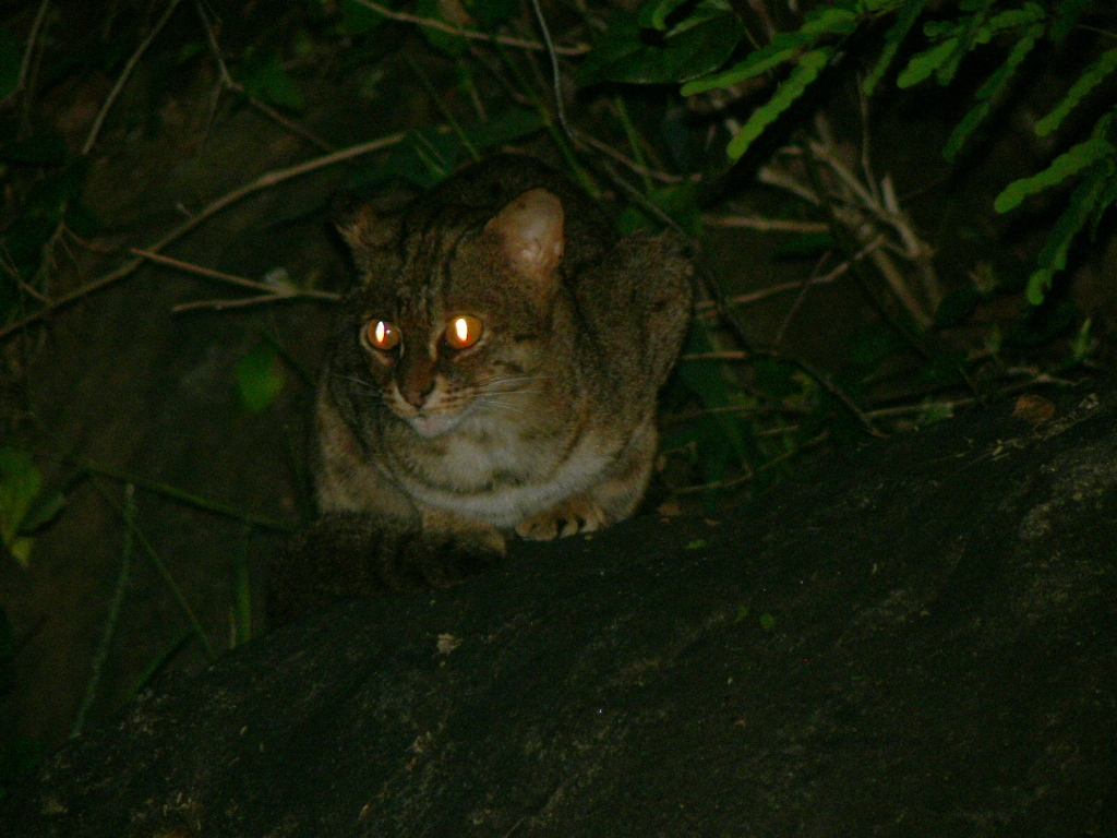 Photograph of a Rusty-spotted cat in its natural habitat in the Anamalai hills, south India.